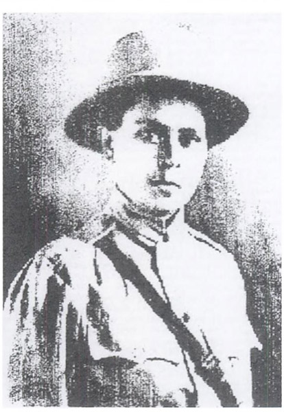 Kebedech Seyoum, ethiopian female patriot, 1935